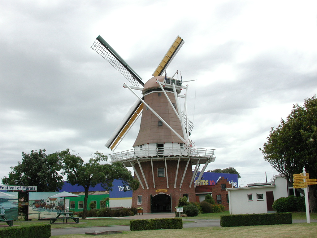 De Molen windmill (authentic Dutch type) in Foxton.